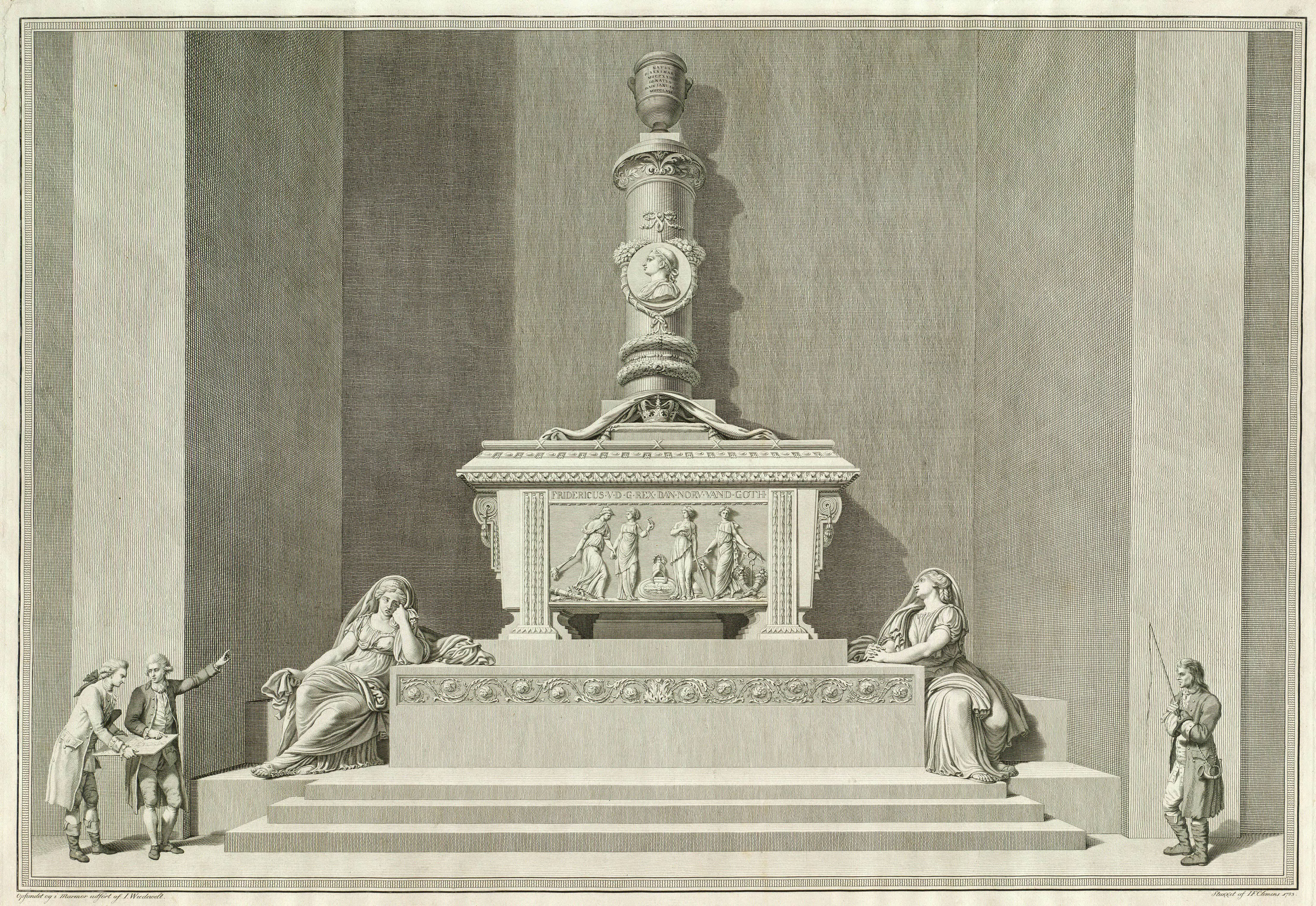 The sarcophagus of king Frederick V of Denmark-Norway, designed by Johannes Wiedewelt. Wiedewelt and Caspar Frederik Harsdorff are seen to the left in the picture.